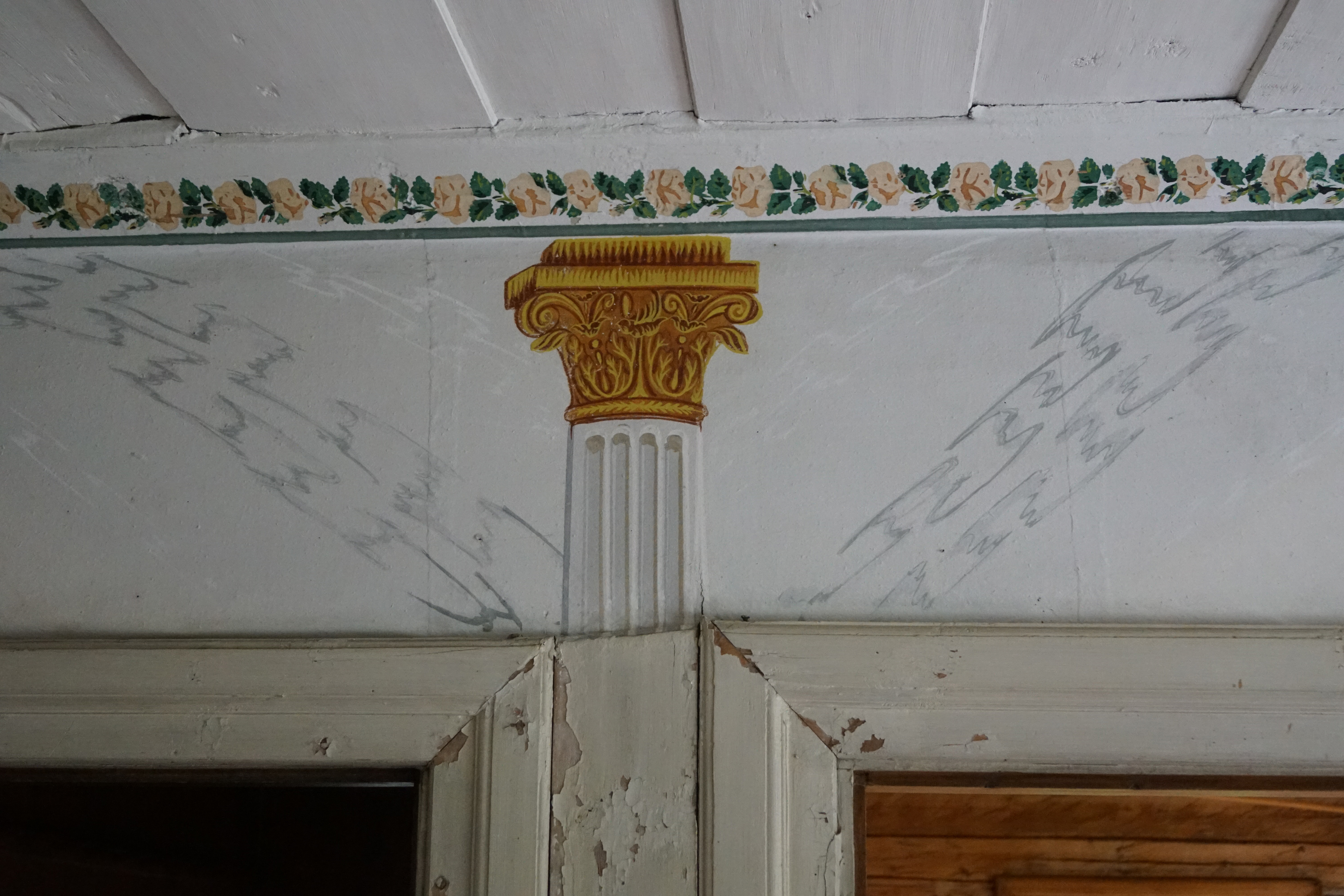 Interior from the hälsingegård (farm of Hälsingland province) Hans-Anders (Träslottet, the Wooden Castle) in Arbrå socken.